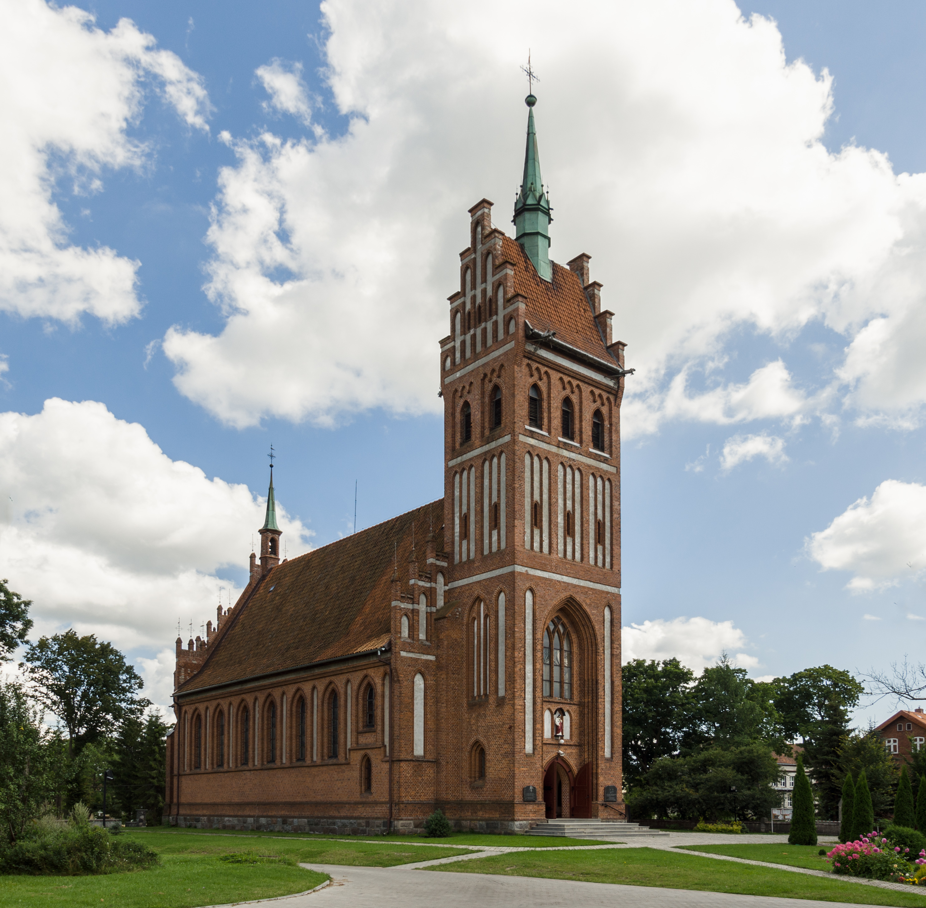 Sacred Heart church in Górowo Iławeckie, Poland.